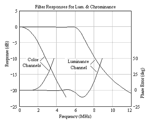 Amplitude and phase error characteristics of Filters for EMI 2001